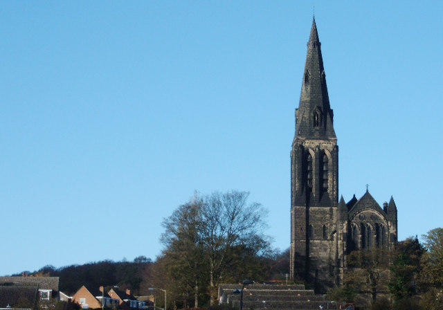 St Margaret's parish church, Horsforth, West Yorkshire, seen the back of Morrison's supermarket